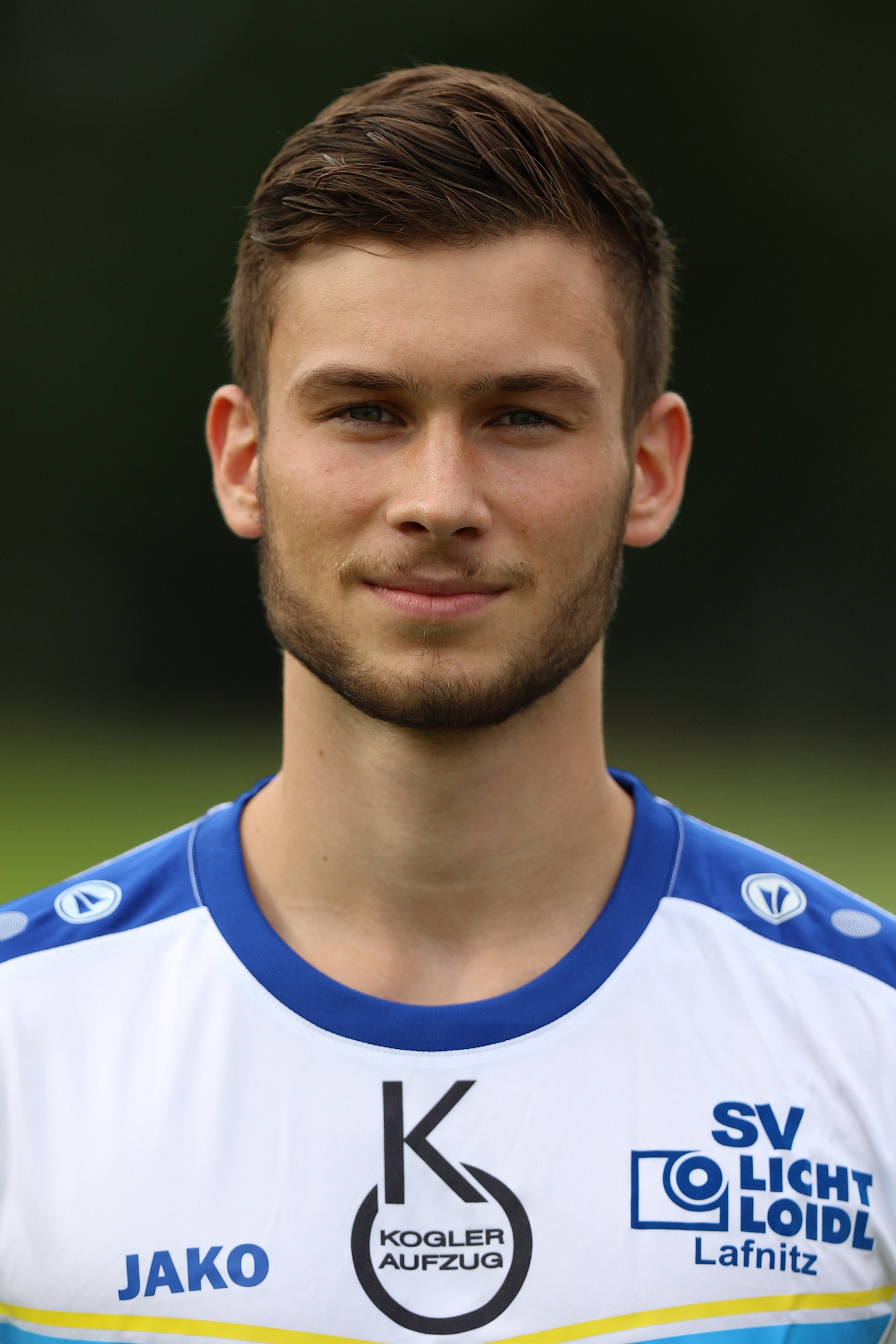 Friendly match SC Wiener Neustadt (blue shirts) vs. SV Lafnitz (white shirts) in the sportscenter in Katzelsdorf. – The photo shows Julian Tomka (SV Lafnitz).